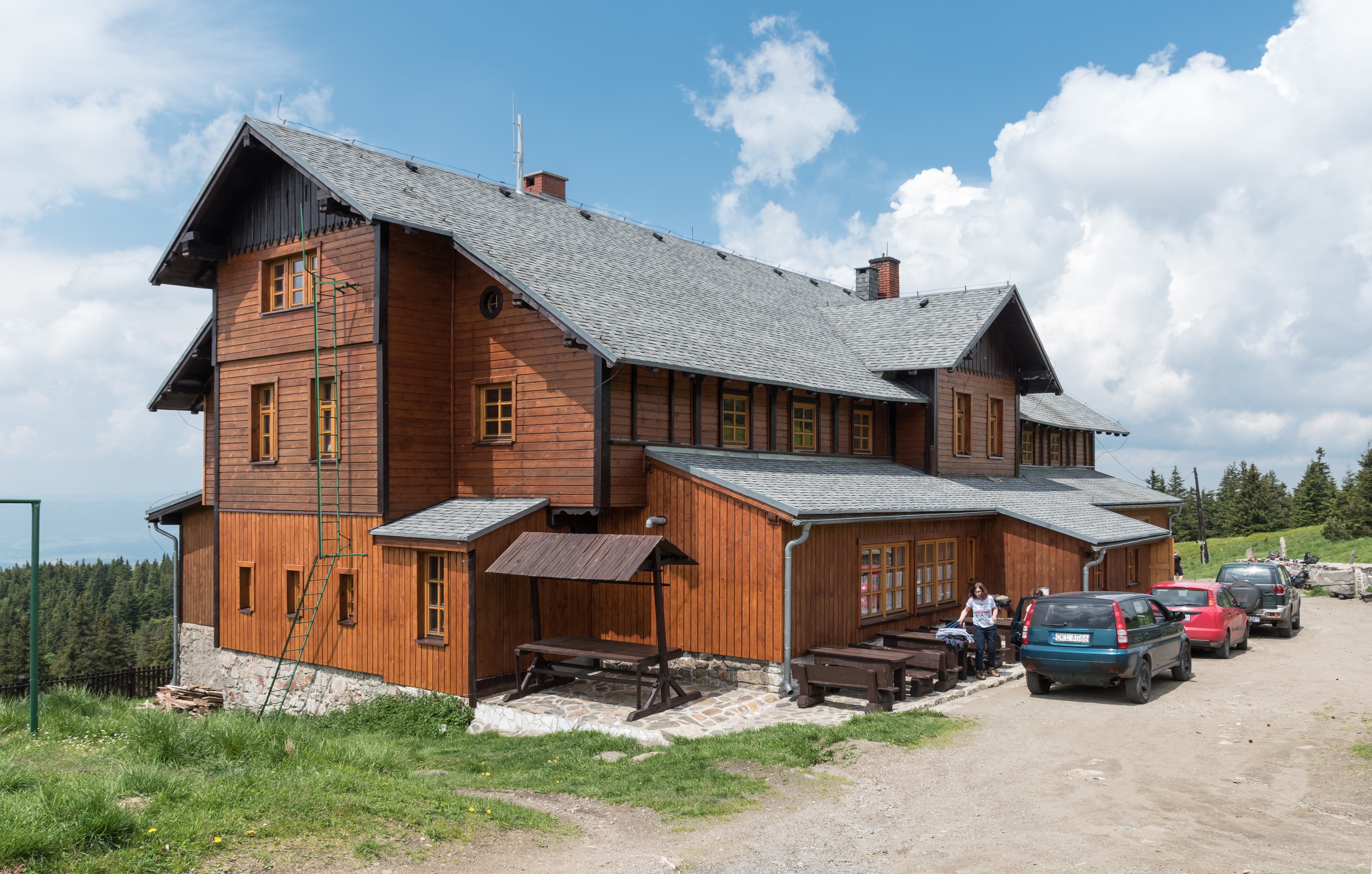 Na Śnieżniku hostel